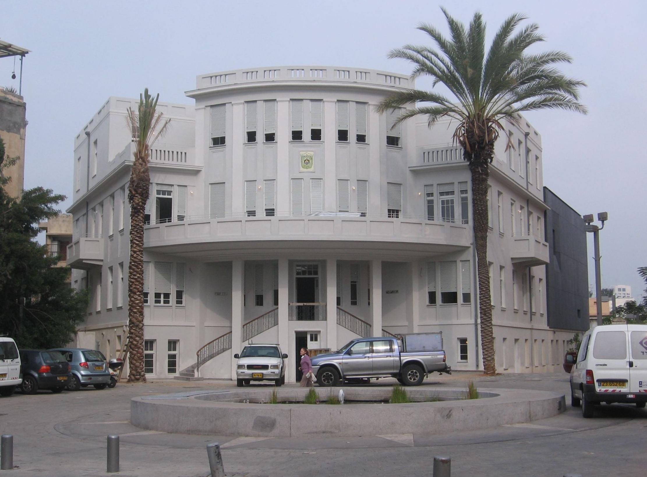 Skora's building - Tel Aviv's old city hall.